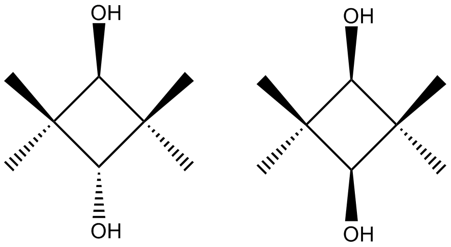 Stereoisomers of 2,2,4,4-Tetramethyl-1,3-cyclobutanediol (CBDO)